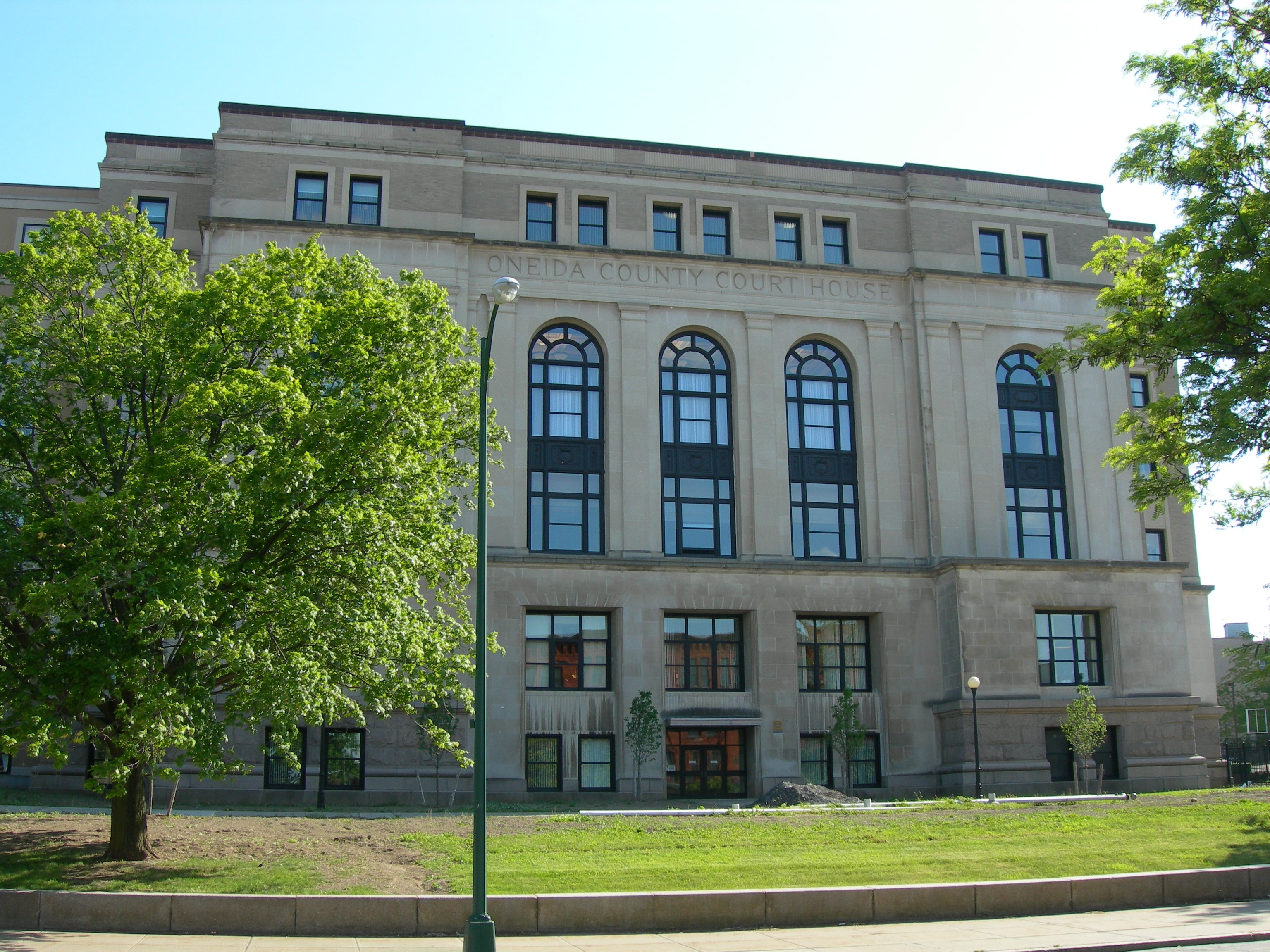 Oneida County Courthouse, constructed in 1909, in Utica, New York, United States.